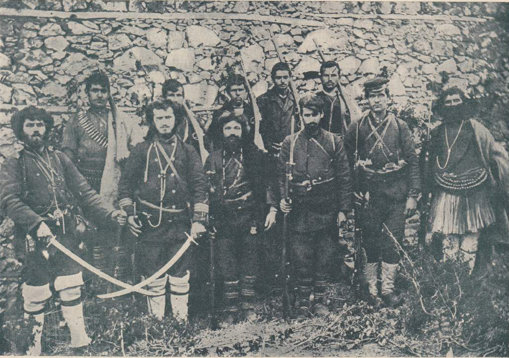 IMRO Revolutionaries from Florina, 1903